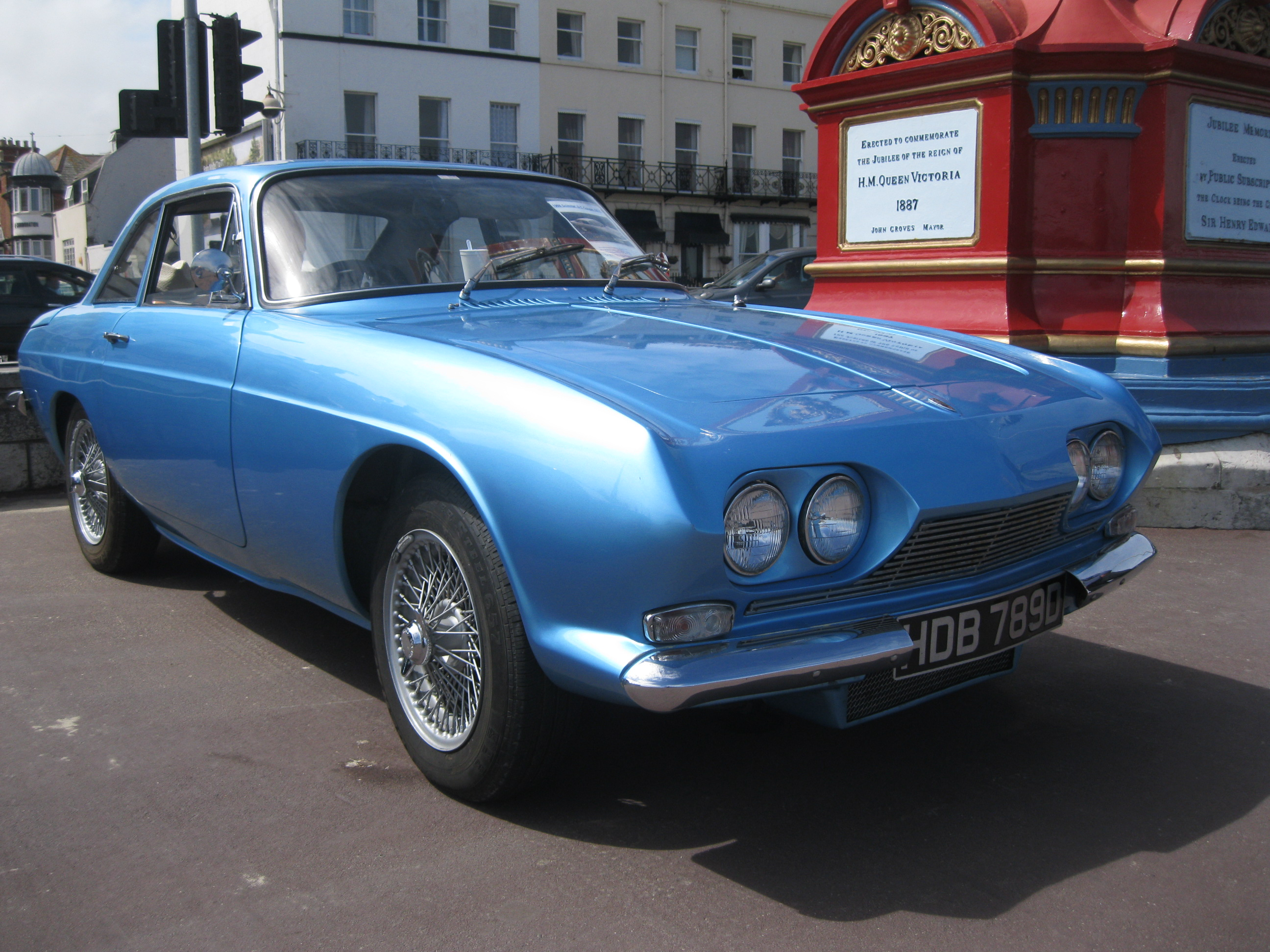 Nice example of the Ogle-styled Scimitar, which had a 2553cc 6 cylinder Ford Zephyr/Zodiac engine. Spotted on Weymouth seafront 16.06.13 in a small group of Classic Cars.